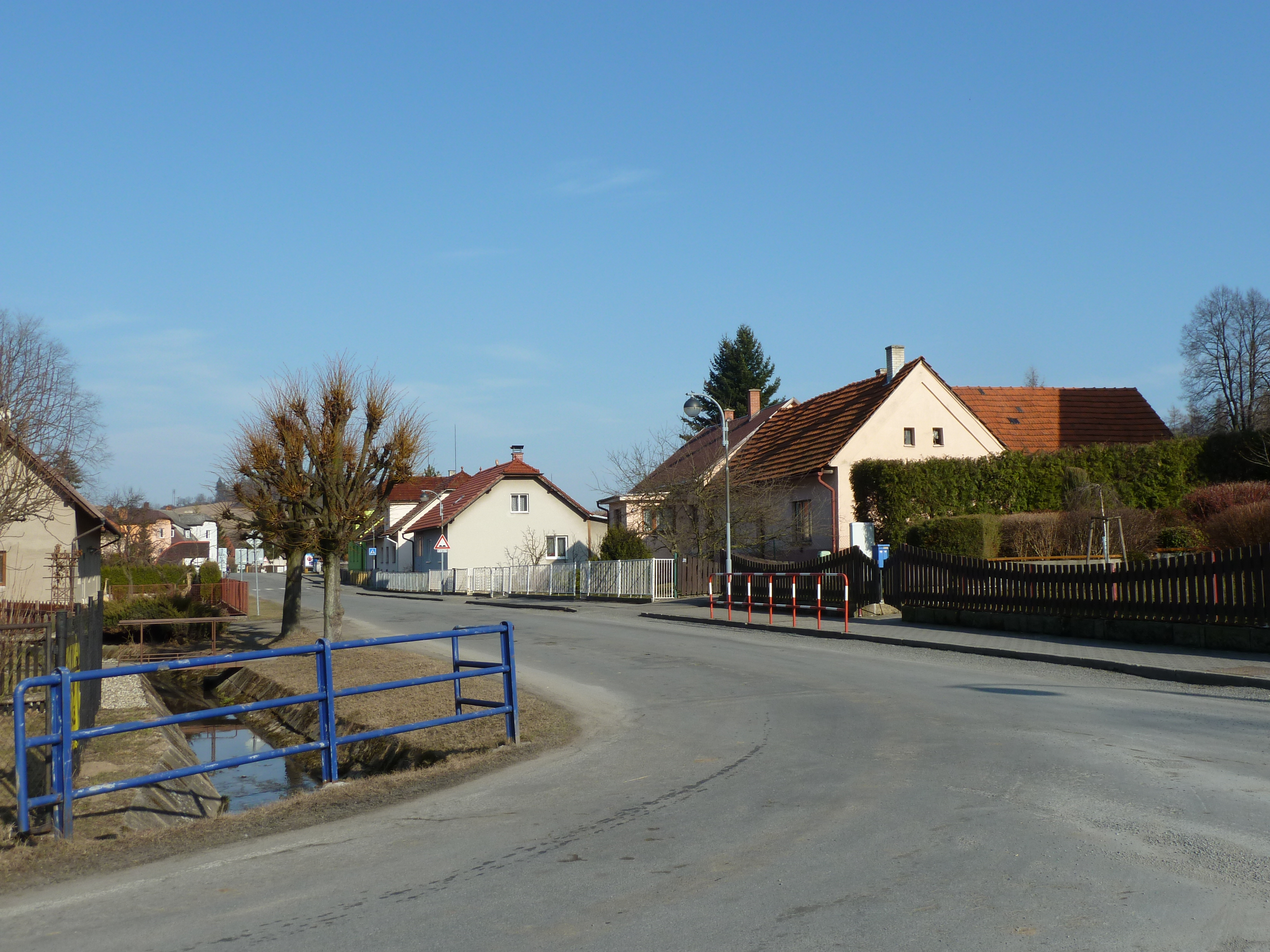 village Hostašovice (Nový Jičín district, north-eastern Moravia, Czech Republic)